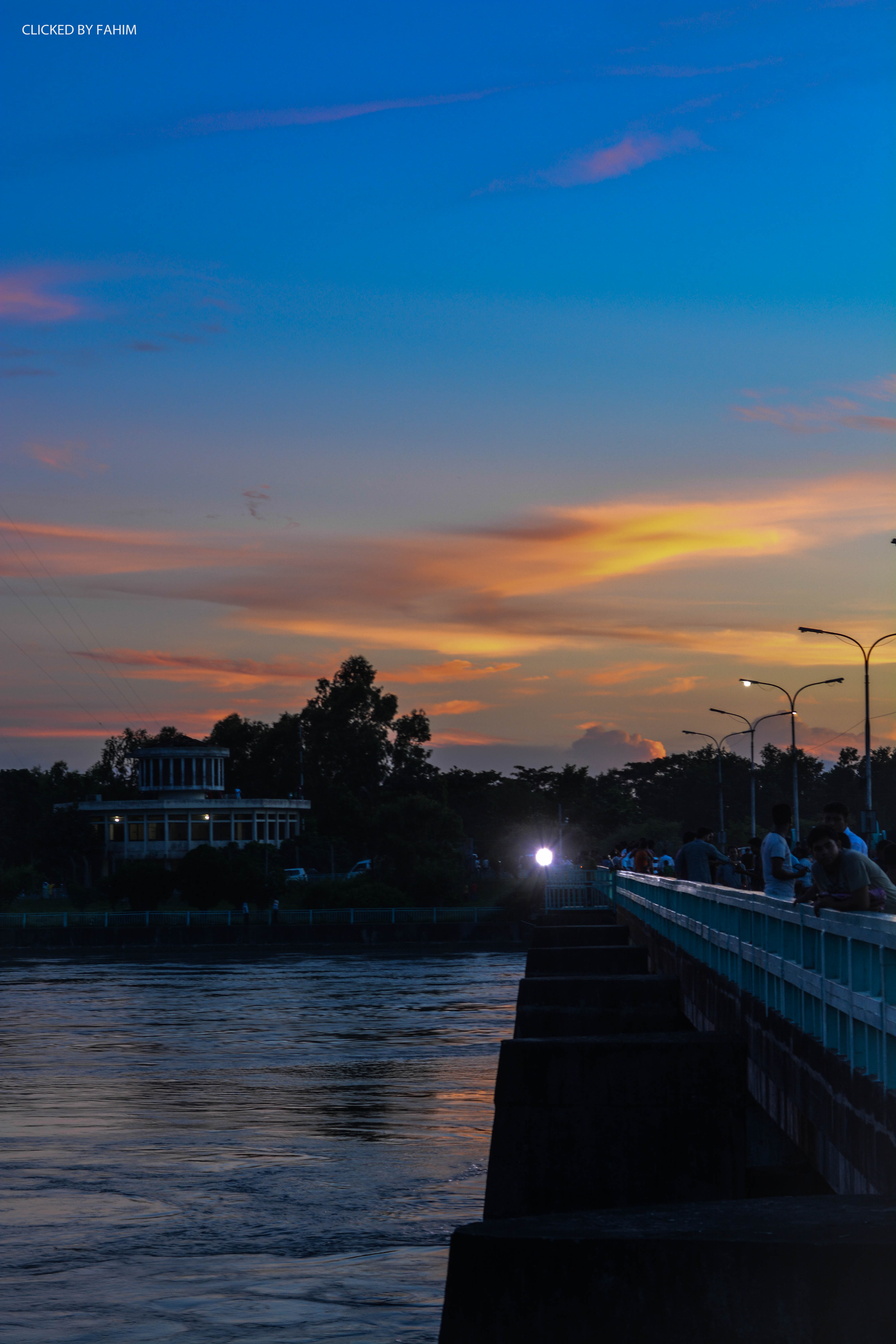 Teesta Dam